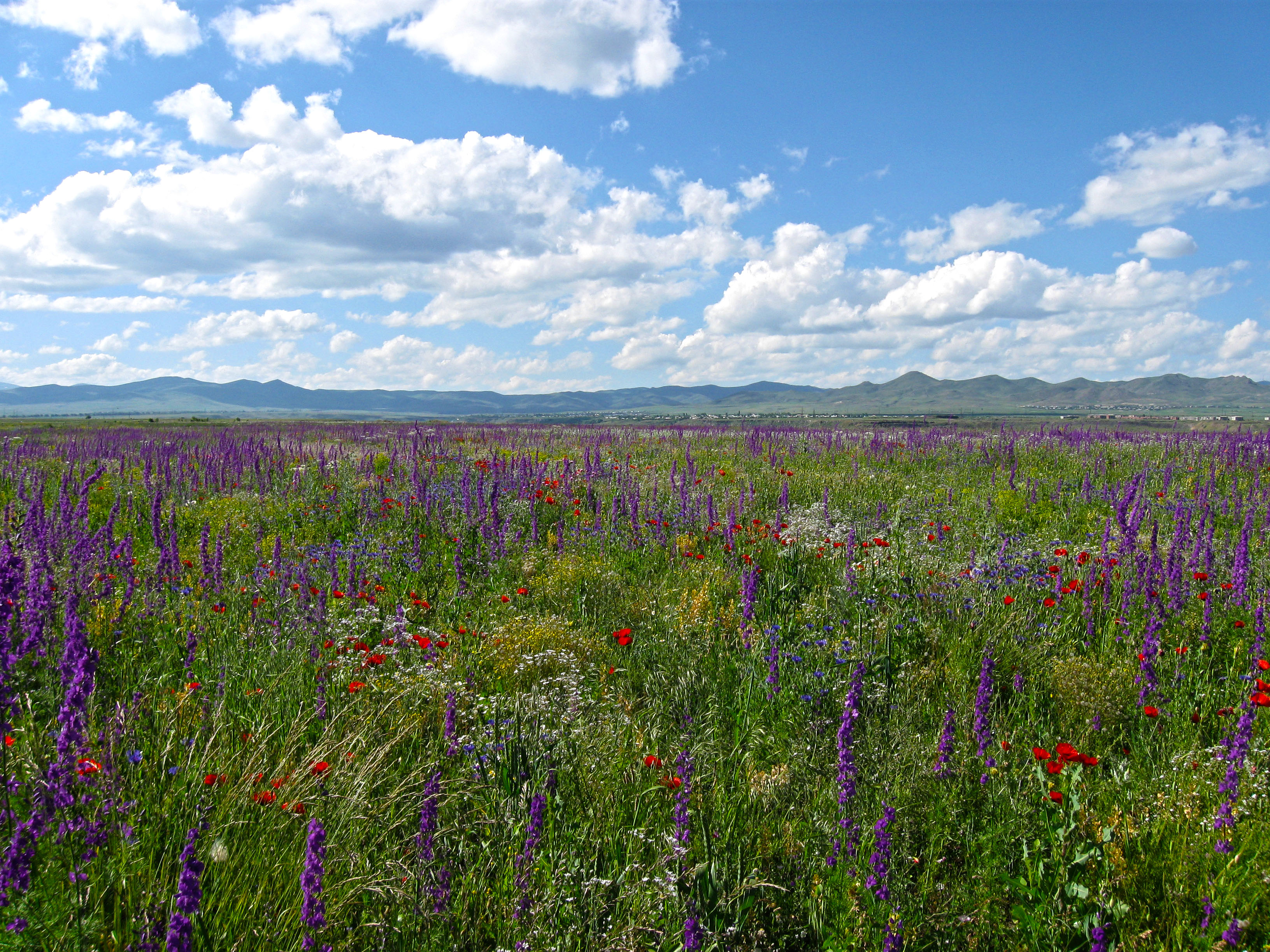 Feather Grass Steppe, protected area, located 3 km to north-west from Amasia